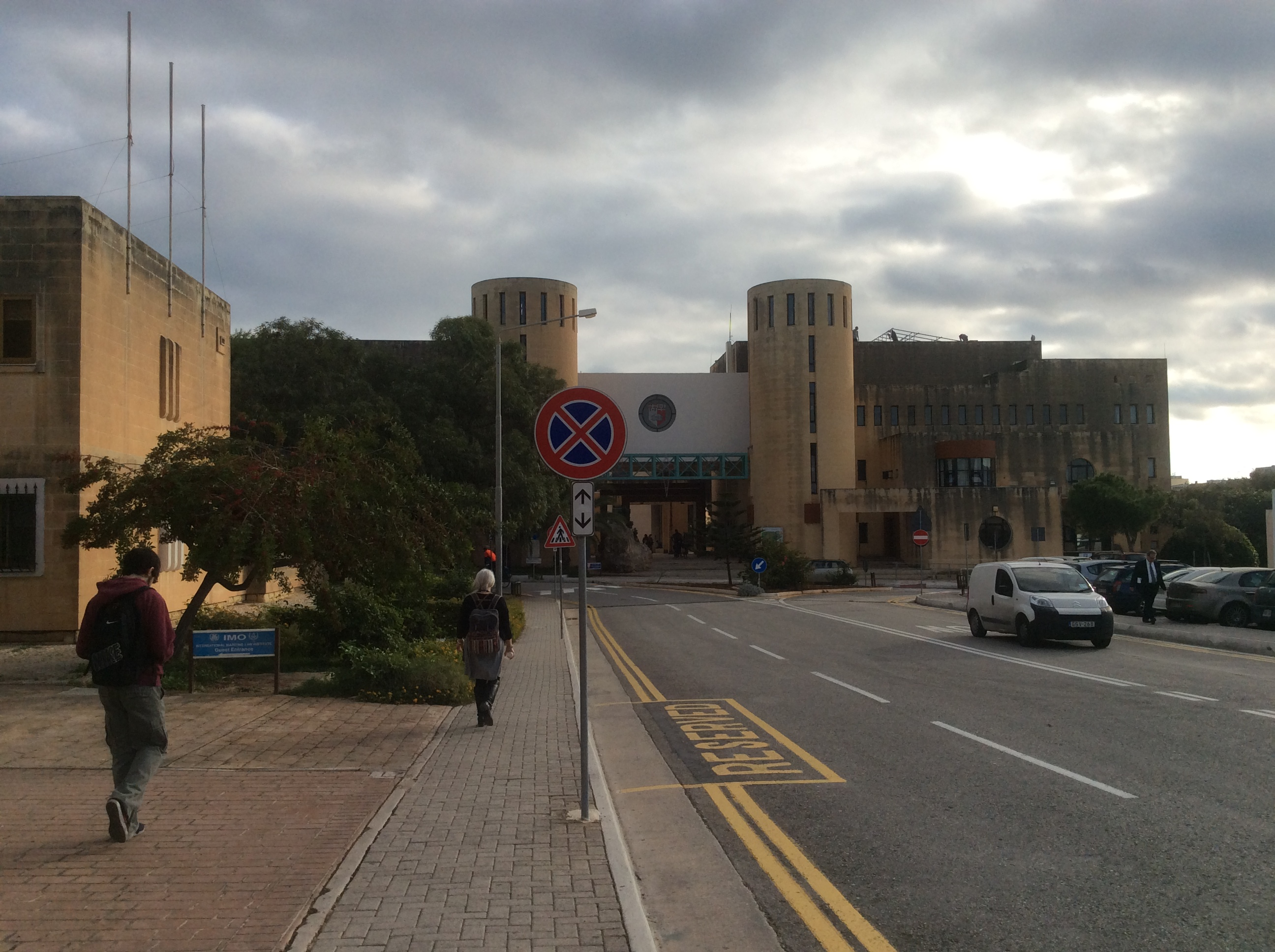 University of Malta main campus main entrance